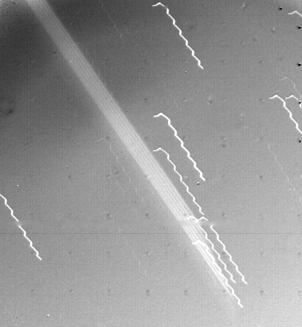 Original Caption Released with Image: First evidence of a ring around the planet Jupiter is seen in this photograph taken by Voyager 1 on March 4, 1979. The multiple exposure of the extremely thin faint ring appears as a broad light band crossing the center of the picture. The edge of the ring is 1,212,000 km from the spacecraft and 57,000 km from the visible cloud deck of Jupiter. The background stars look like broken hair pins because of spacecraft motion during the 11 minute 12 second exposure. The wavy motion of the star trails is due to the ultra-slow natural oscillation of the spacecraft (with a period of 78 seconds). The black dots are geometric calibration points in the camera. The ring thickness is estimated to be 30 km or less. The photograph was part of a sequence planned to search for such rings in Jupiter's equatorial plane. The ring has been invisible from Earth because of its thinness and its transparency when viewed at any angle except straight on. JPL manages and controls the Voyager Project for NASA's Office of Space Science.